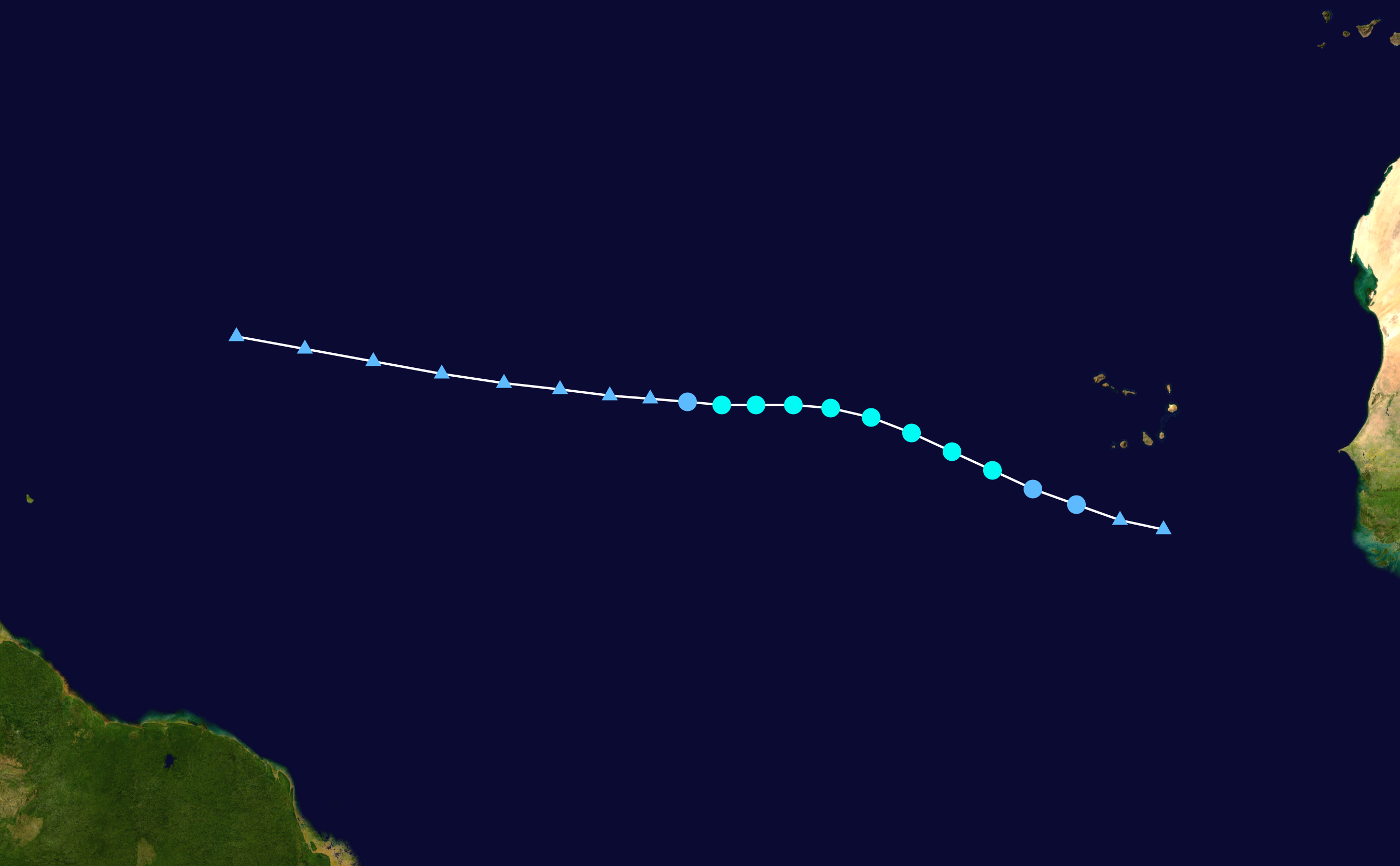 Track map of Tropical Storm Florence of the 2012 Atlantic hurricane season. The points show the location of the storm at 6-hour intervals. The colour represents the storm's maximum sustained wind speeds as classified in the Saffir–Simpson scale (see below), and the shape of the data points represent the nature of the storm, according to the legend below. Saffir–Simpson scale Tropical depression≤38 mph≤62 km/h Category 3111–129 mph178–208 km/h Tropical storm39–73 mph63–118 km/h Category 4130–156 mph209–251 km/h Category 174–95 mph119–153 km/h Category 5≥157 mph≥252 km/h Category 296–110 mph154–177 km/h Unknown Storm type Tropical cyclone Subtropical cyclone Extratropical cyclone / Remnant low / Tropical disturbance / Monsoon depression